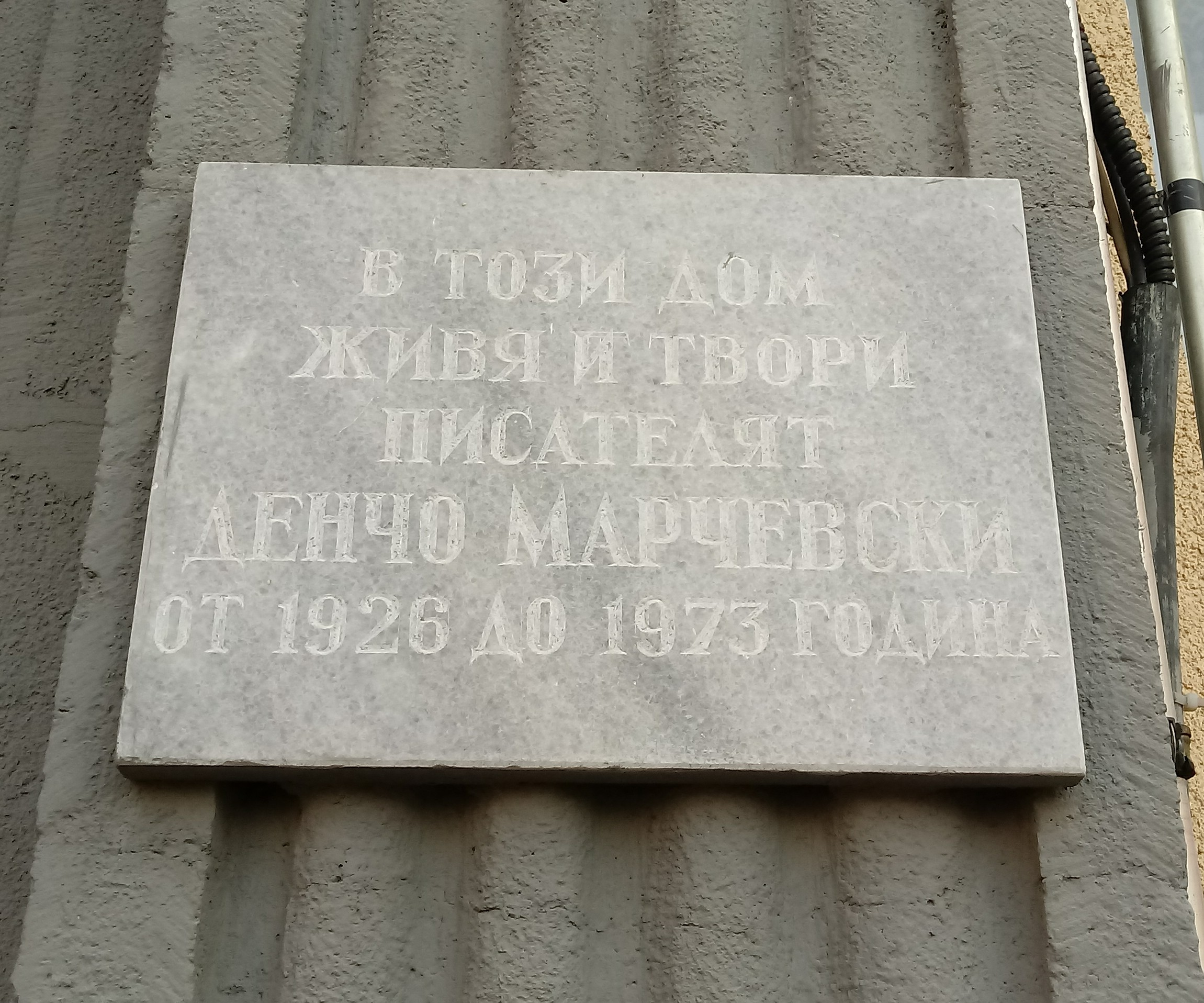 Dencho Marchevski memorial plaque, 1 Ivan-Asen II Str., Sofia